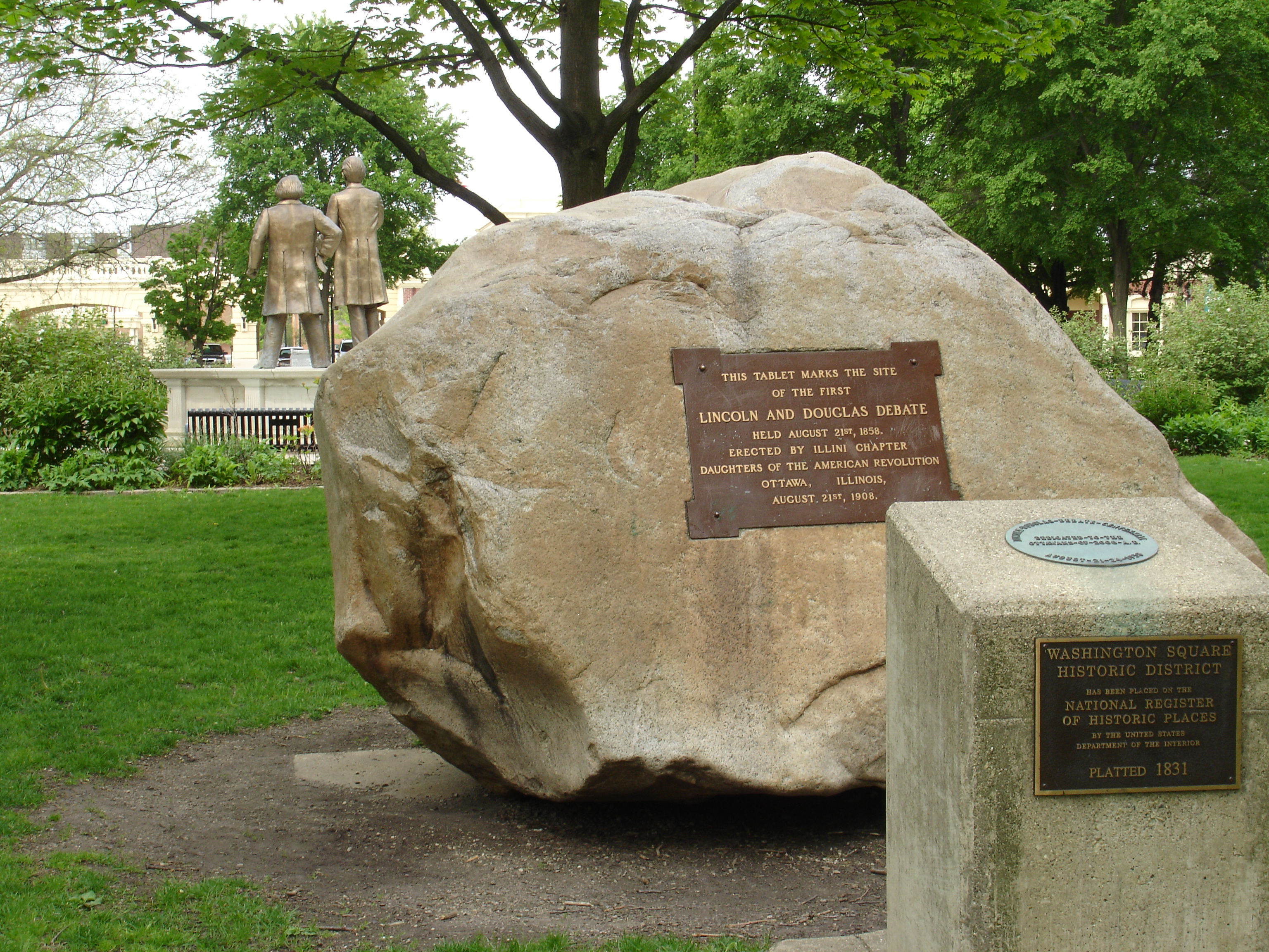 Site of the first Lincoln-Douglas Debate (1858), statues of Abraham Lincoln and Stephen A. Douglas in the distance. Washington Square, Ottawa, Illinois USA. Part of the Washington Park Historic District, U.S. National Register of Historic Places.